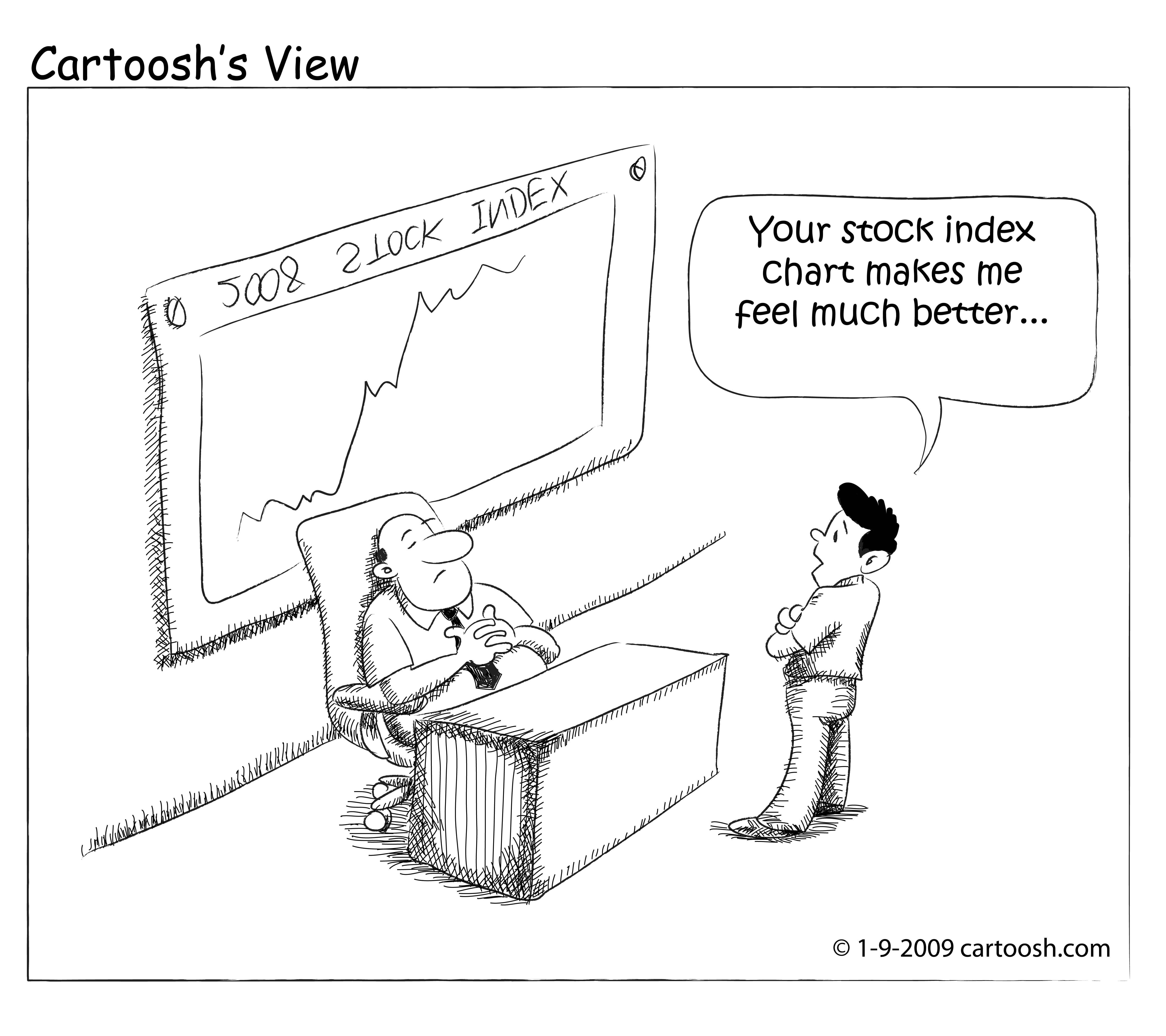 Cartoon: the stock index chart presents a different economic situation when turned upside down and backward